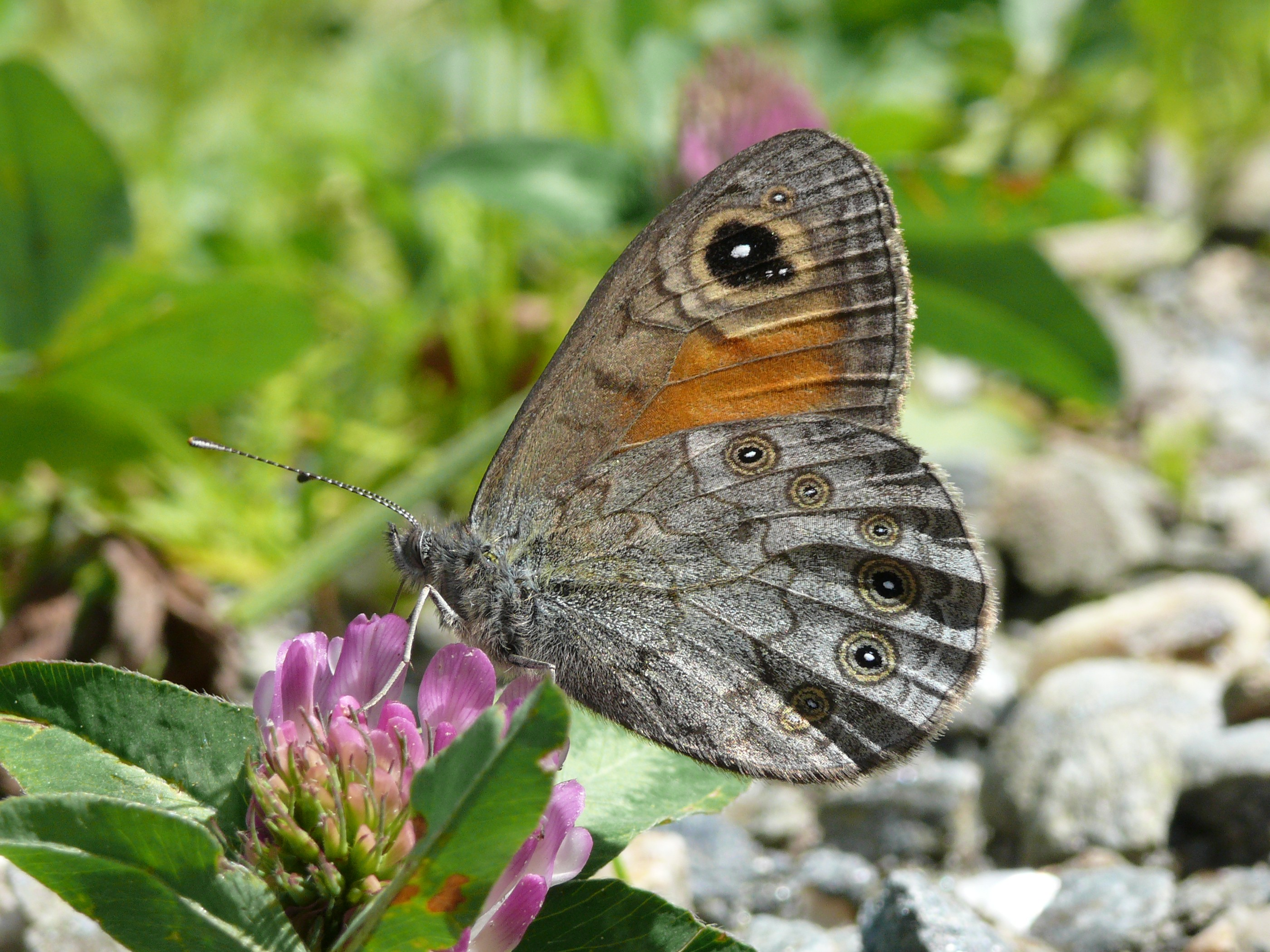 Female Large Wall Brown (Lasiommata maera), Eisacktal, South Tyrol